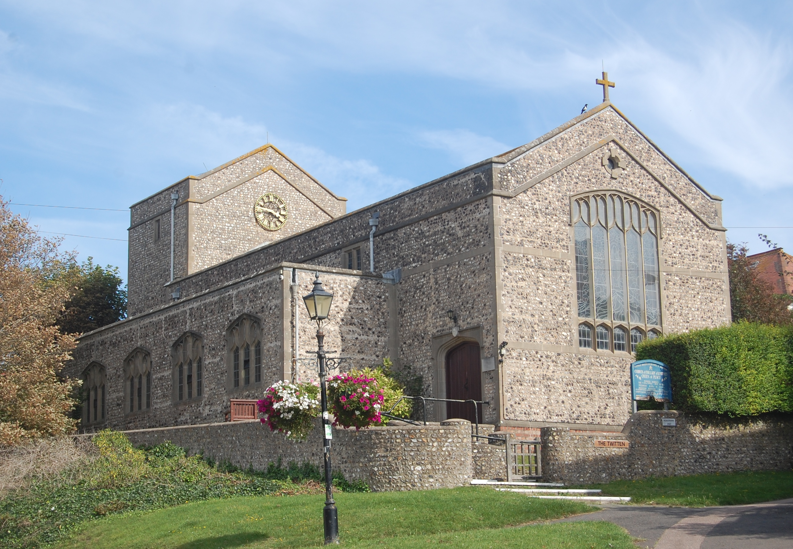 Church of Our Lady of Lourdes, Queen of Peace, Whiteway Lane, Rottingdean, City of Brighton and Hove, England. Built of flint in 1957 in a modern interpretation of a Sussex style of Gothic architecture.